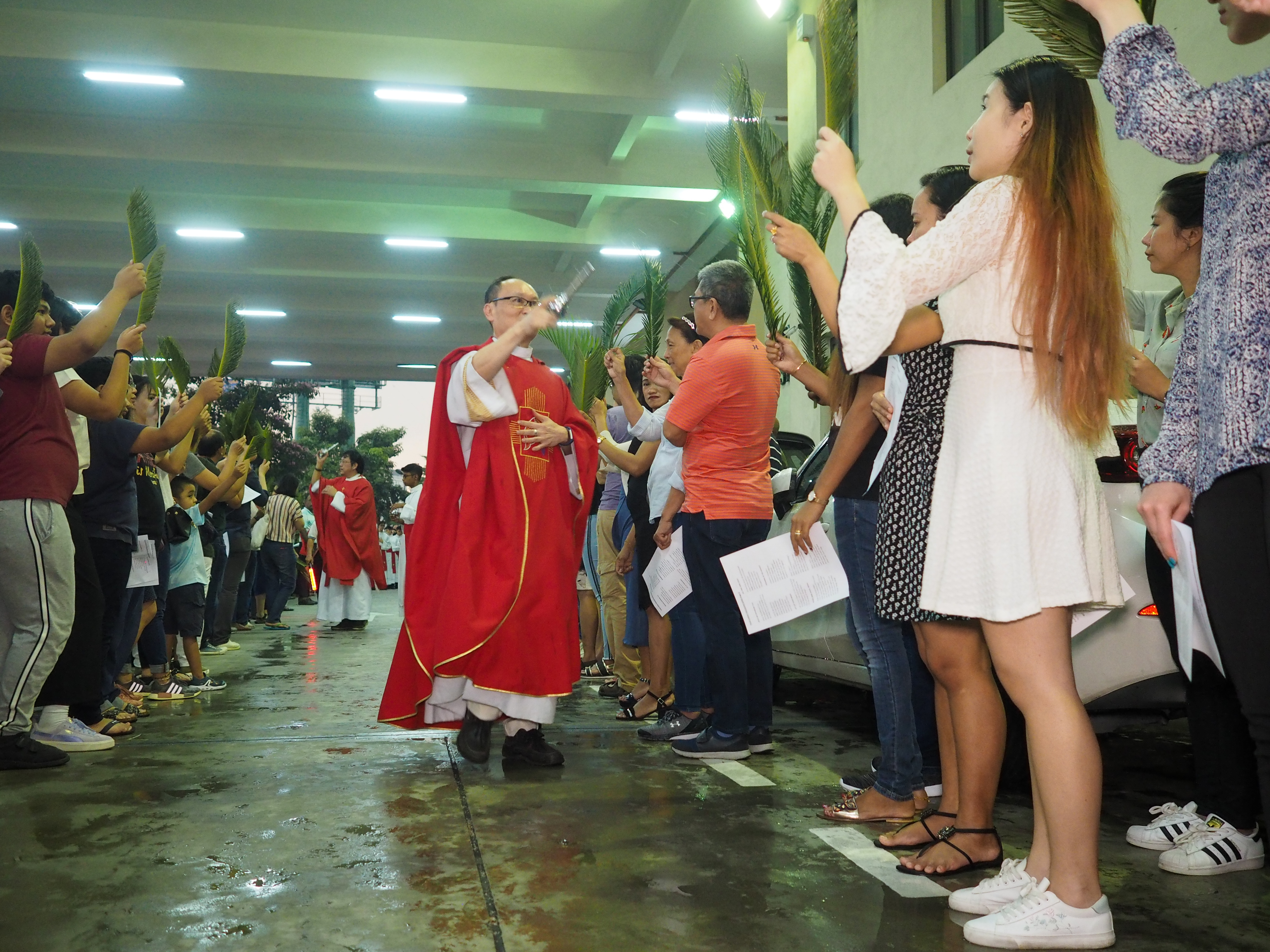 Palm Sunday at St Ignatius Church in Petaling Jaya, Selangor, Malaysia.